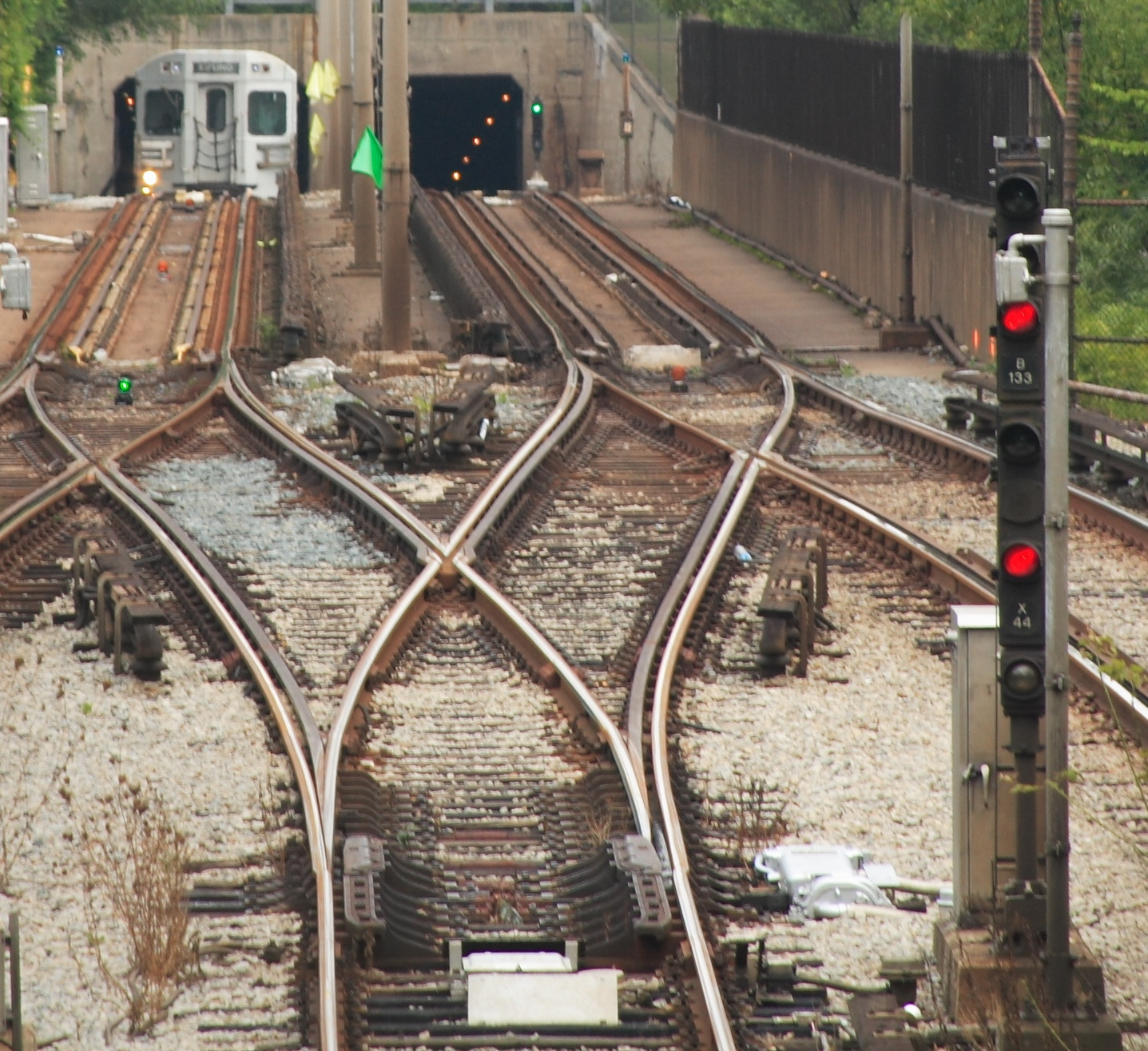 Toronto subway lightbox before switch in the Etobicoke district with a train emerging from underground in the back